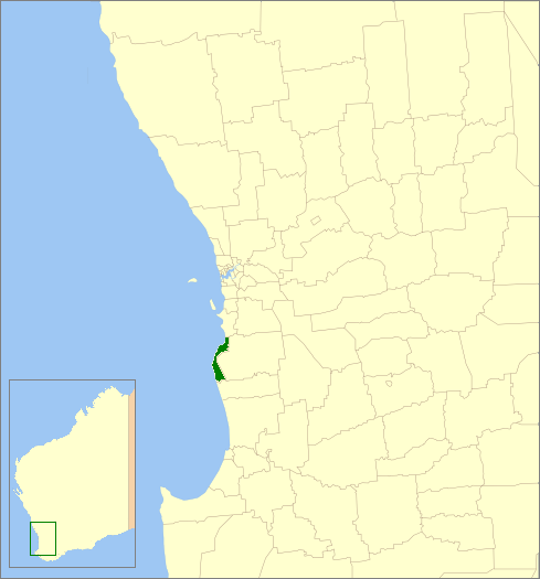 Description=Location of the Local Government Area in Western Australia